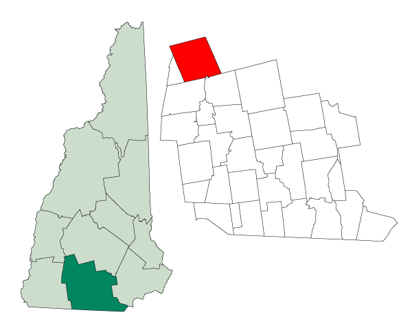 Map of a municipality in Hillsborough County, New Hampshire